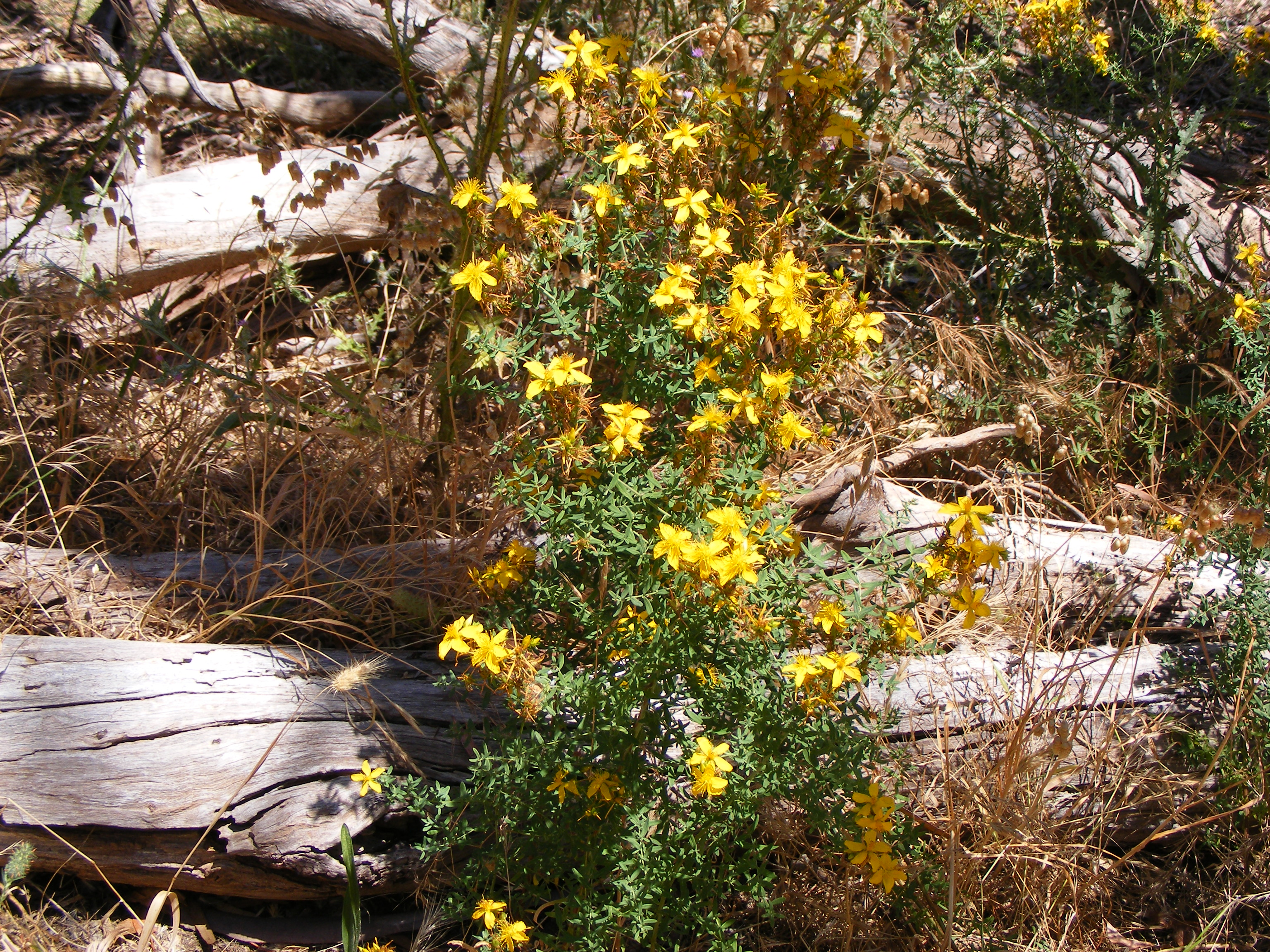 St John's Wort (Hypericum perforatum) plant, beginning of summer. Belair National Park, South Australia